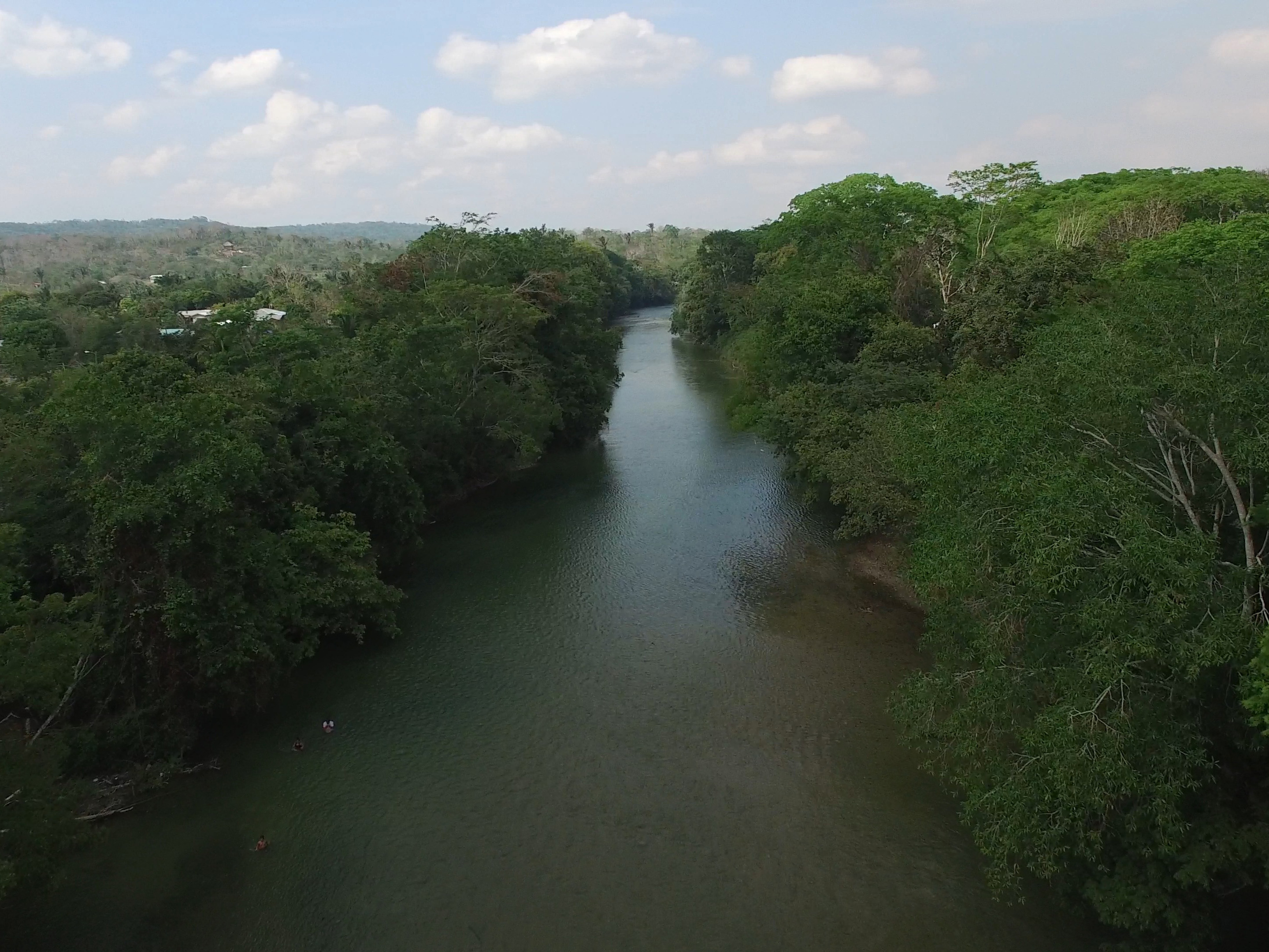 Aerial photograph of the Mopan River in Bullet Tree Falls, Belize